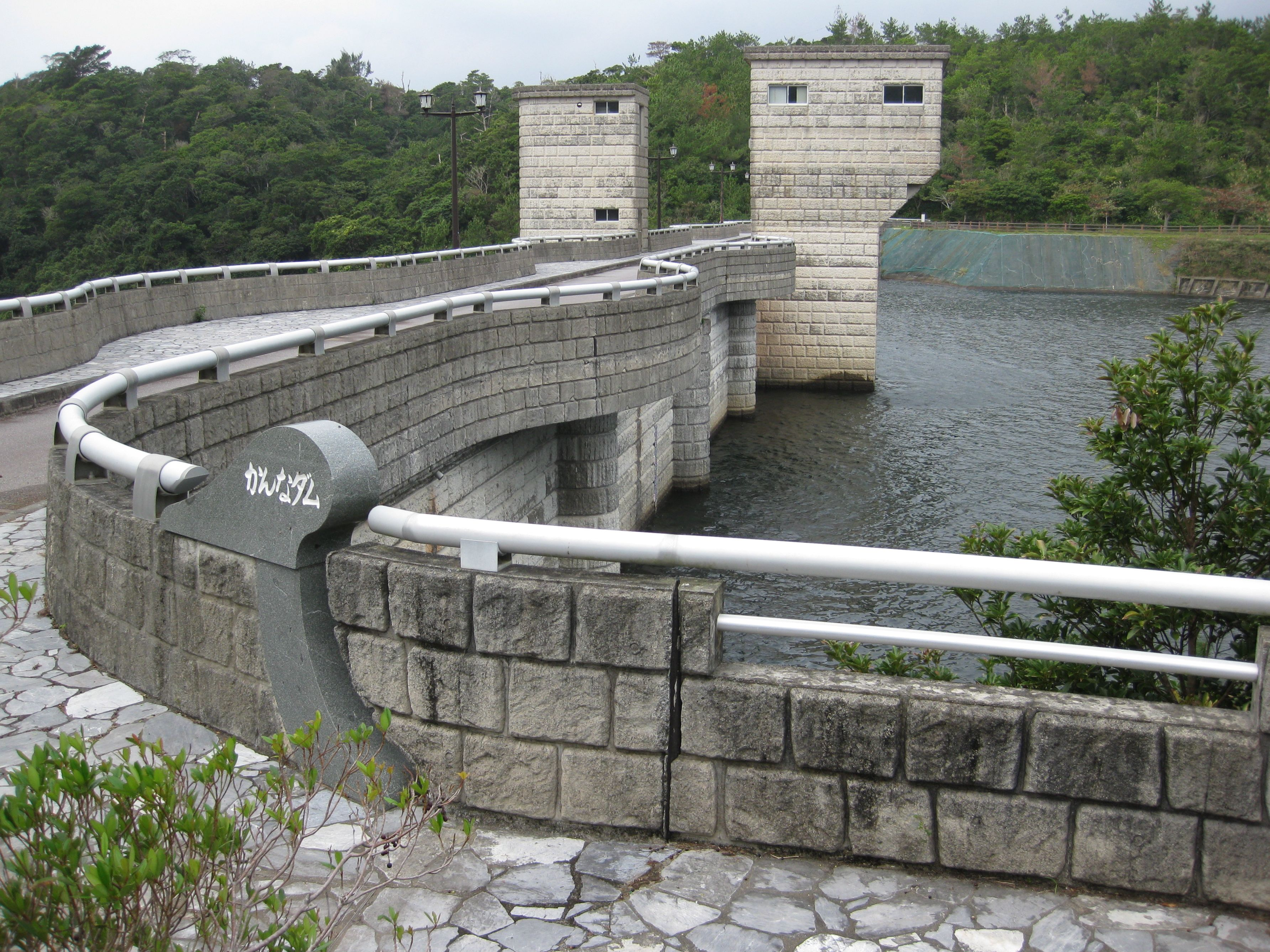 Kanna Main Dam in Okinawa, Japan